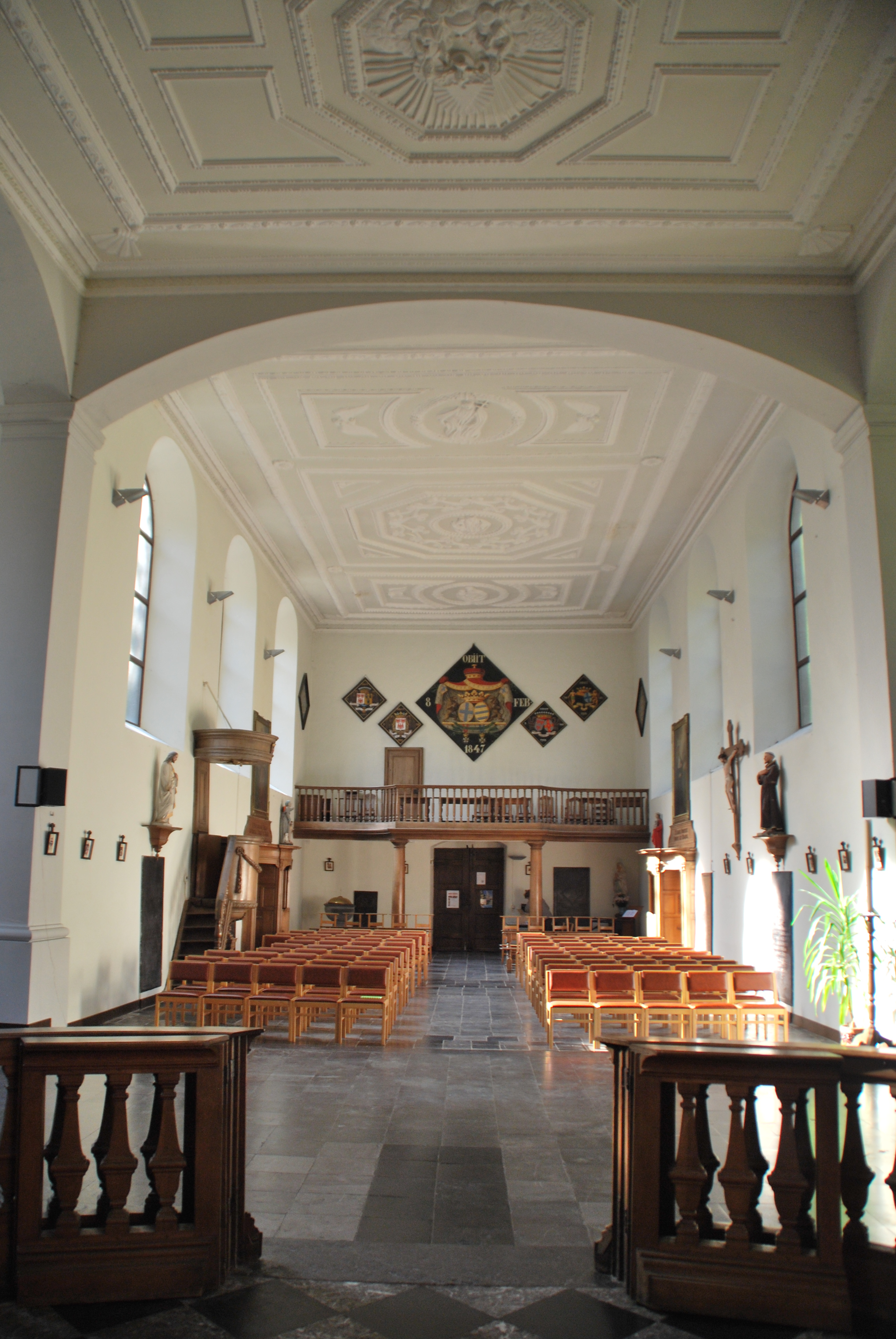 Nef de l'église Saint-Rémi de Franc-Waret vu depuis le choeur